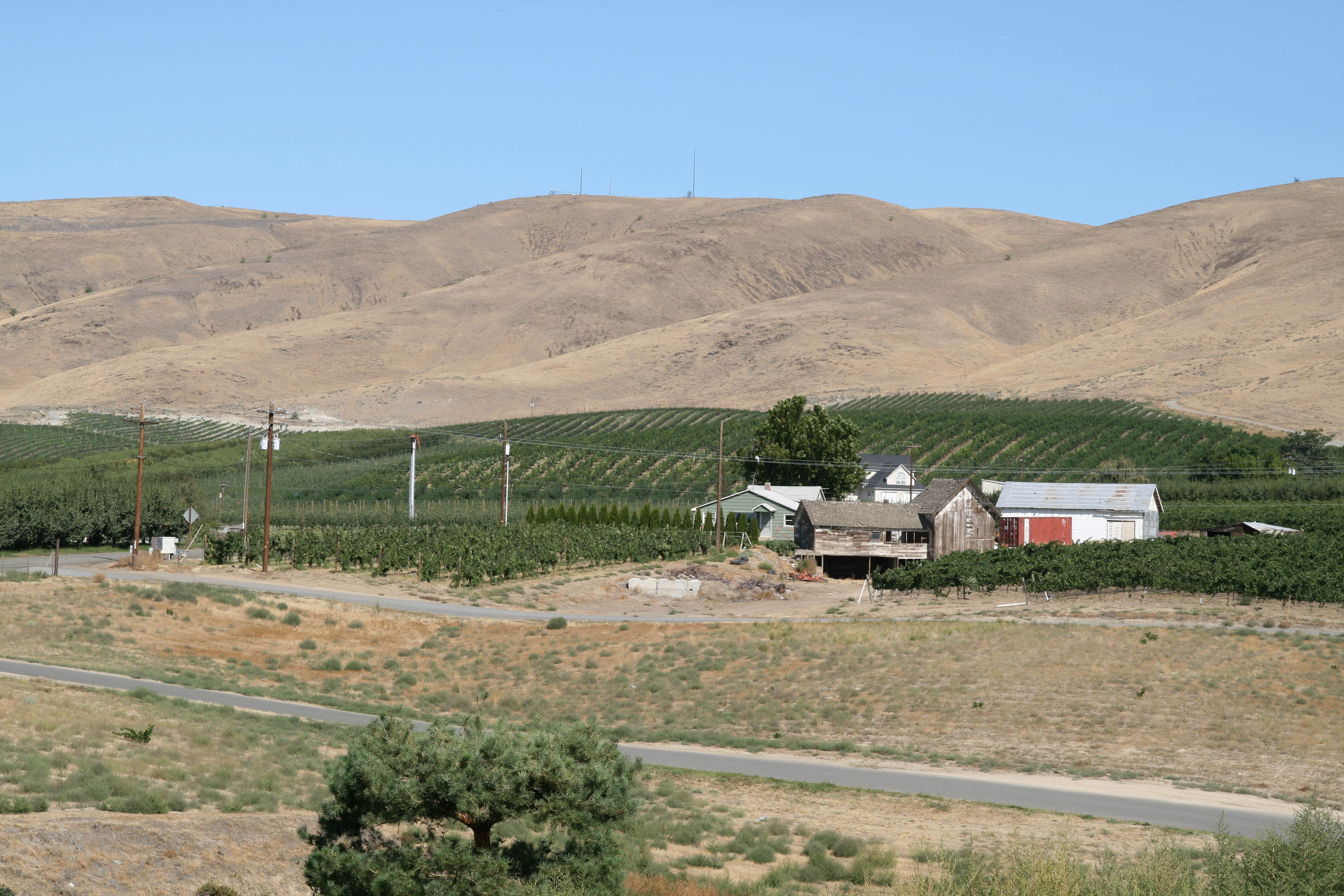 View north from Sagelands Vineyard in Wapto part of the Yakima Valley AVA. Notice how dry the land is, eastern Washington is basically a desert but with areas of vegetation close to the Yakima and Columbia rivers that are used for irrigation.